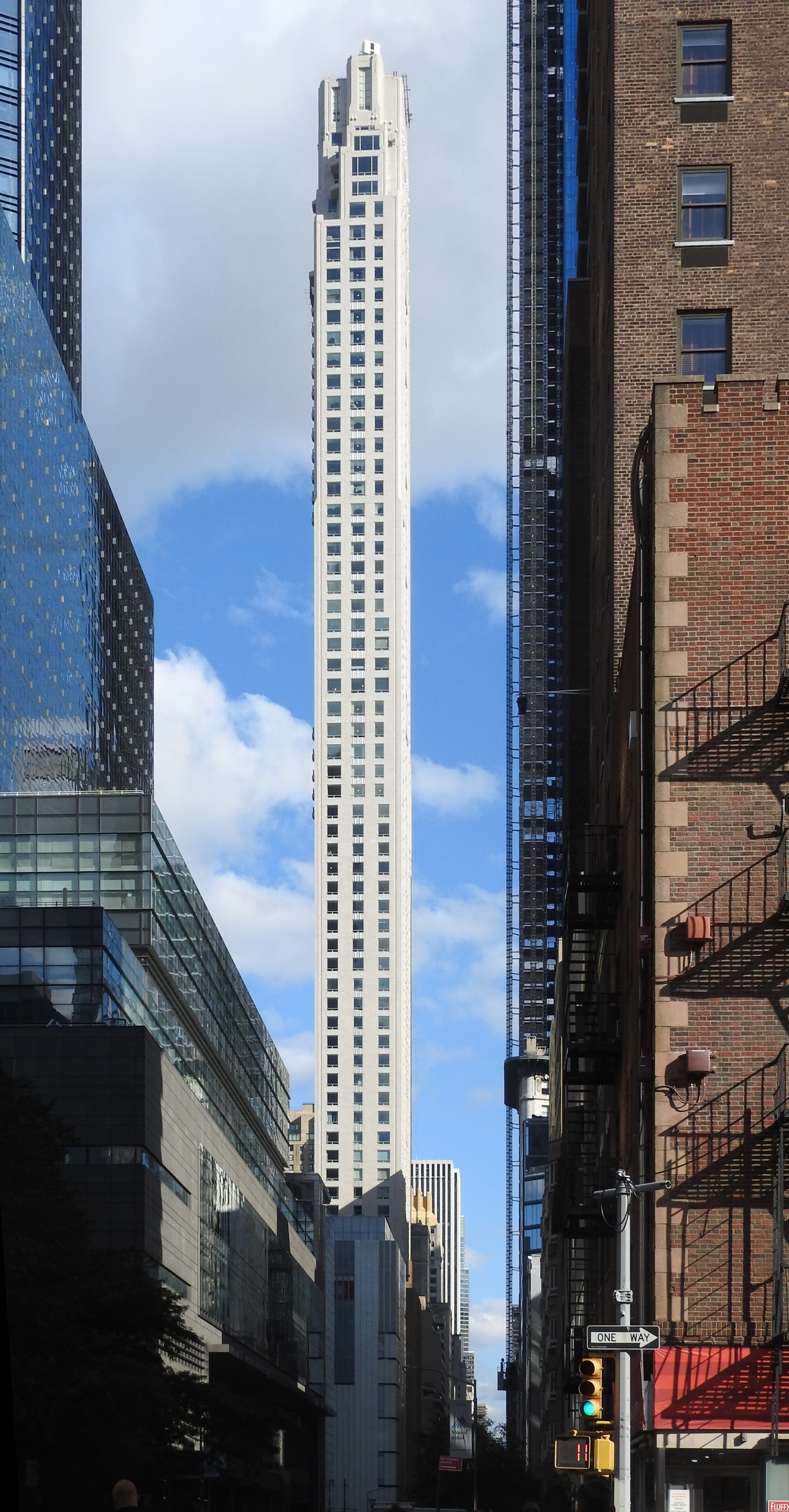 Looking east along 58th street and across 9th Avenue